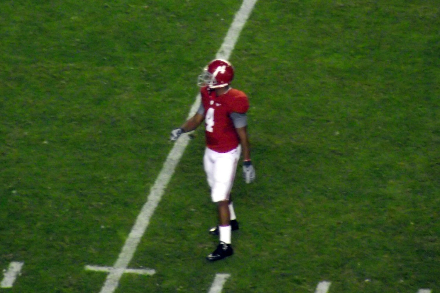 Marquis Maze during an Alabama football game.